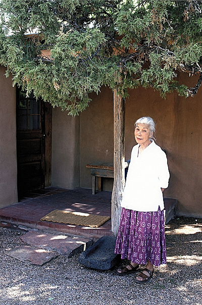 Alice Kagawa (Alice Kagawa Parrott) at her home in Santa Fe